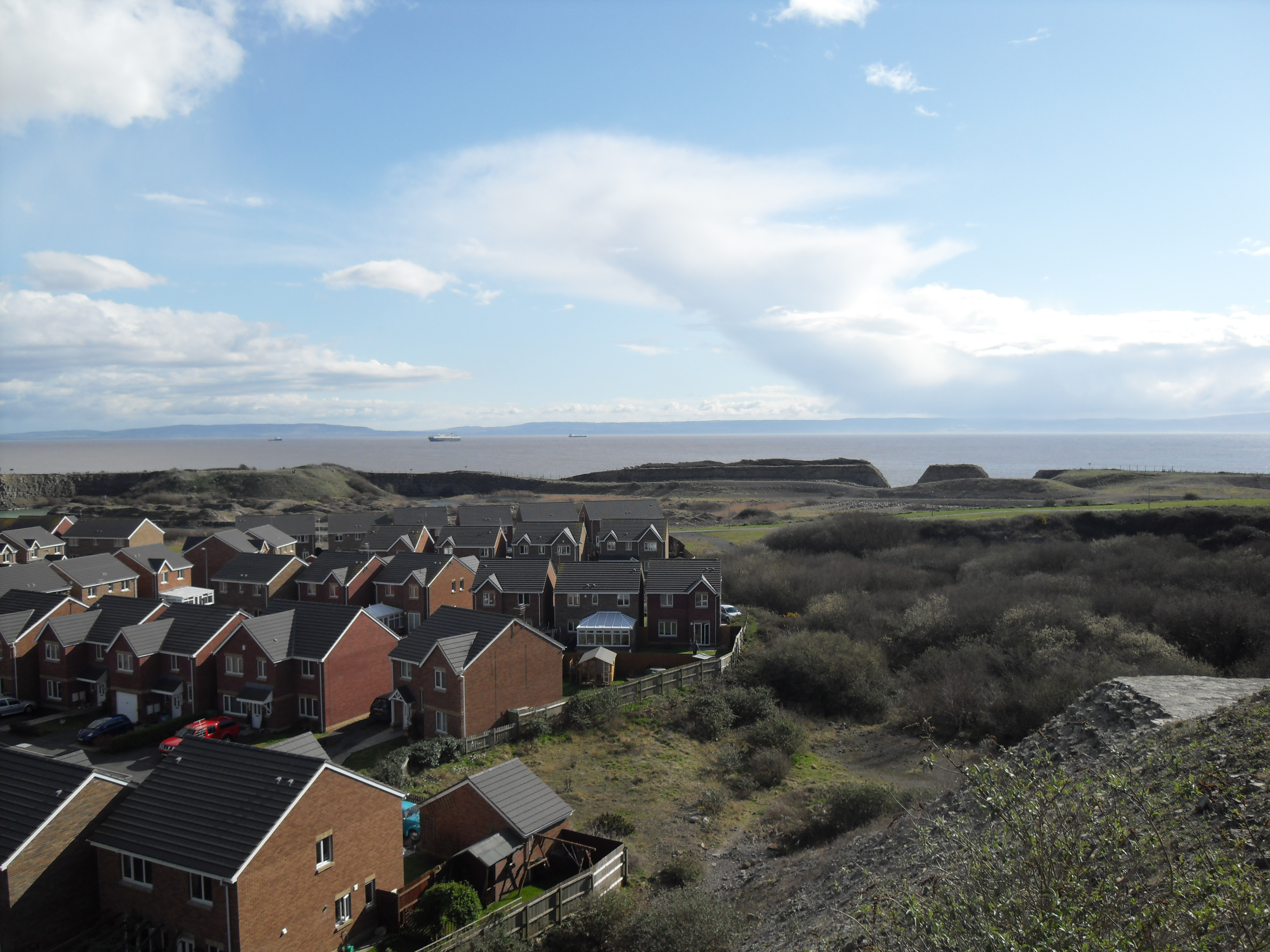 A view over part of Rhoose Point in Wales, facing Southeast with England visible in the distance, across the Bristol Channel